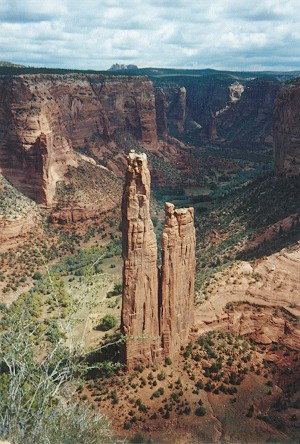 Spider Rock, Canyon de Chelly